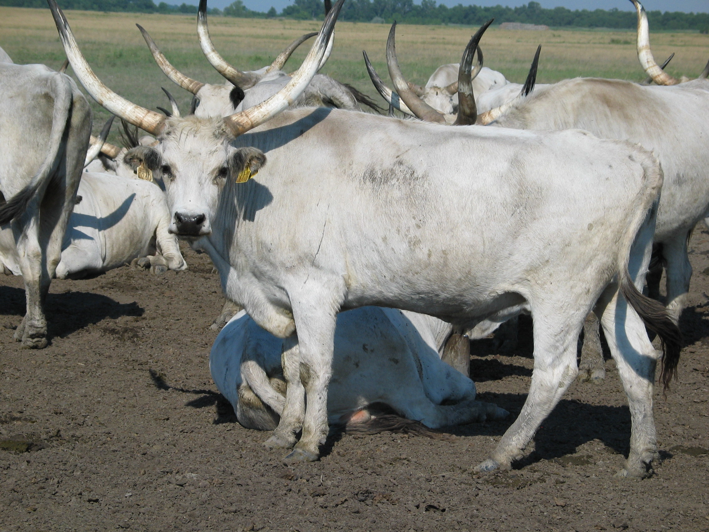 Hungarian Grey cows in Hortobágy National Park, Hungary.